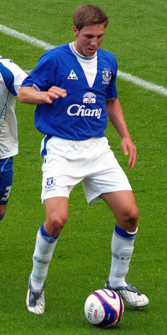 Dan Gosling, English footballer